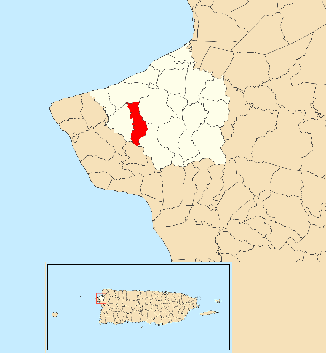 Jagüey, Aguada, Puerto Rico locator map